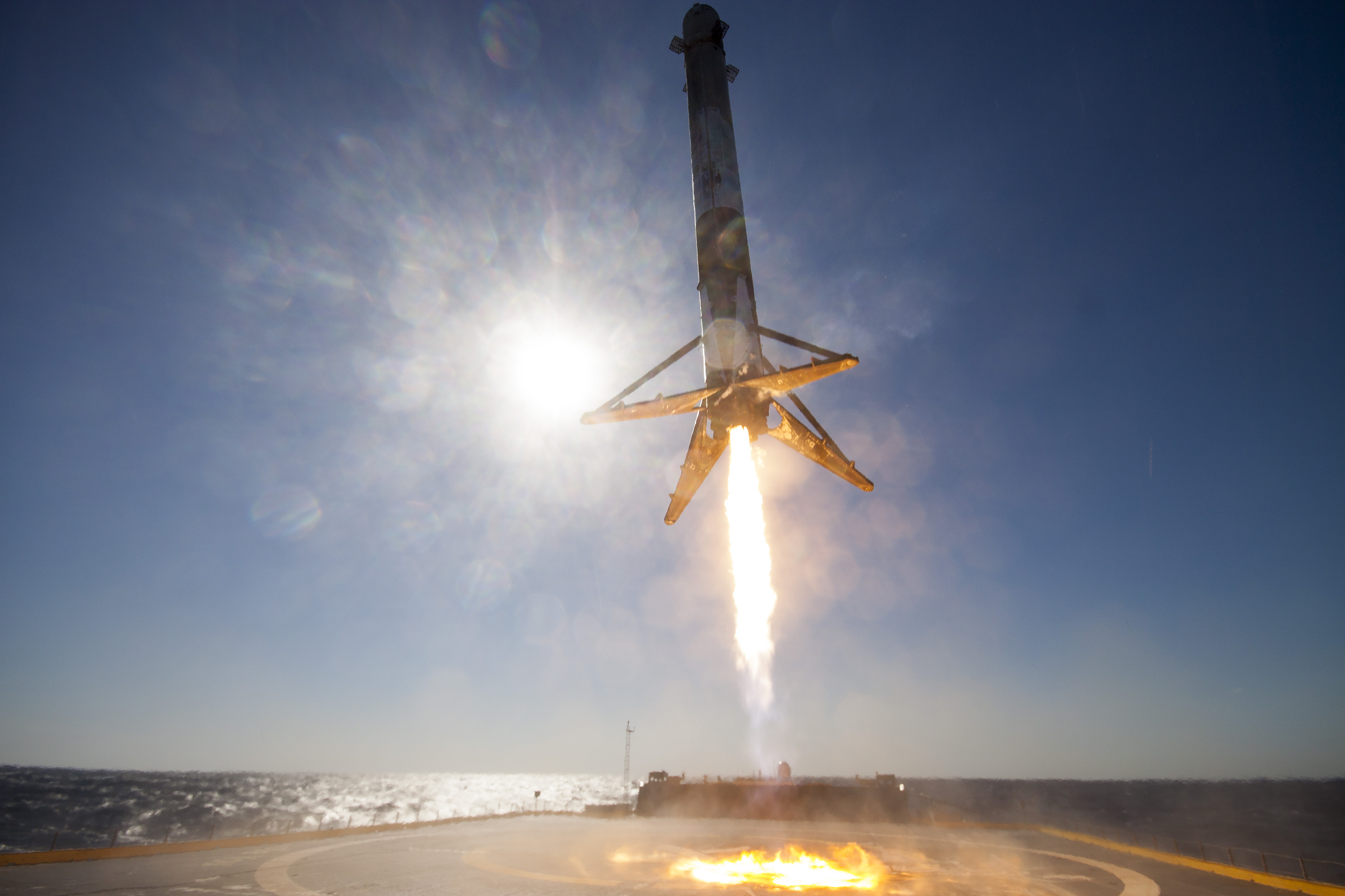 First stage of the SpaceX Falcon 9 rocket successfully landing on the commissioned Autonomous Spaceport Drone Ship for the first time on April 9. The mission, CRS-8, also launched the Dragon spacecraft to orbit.